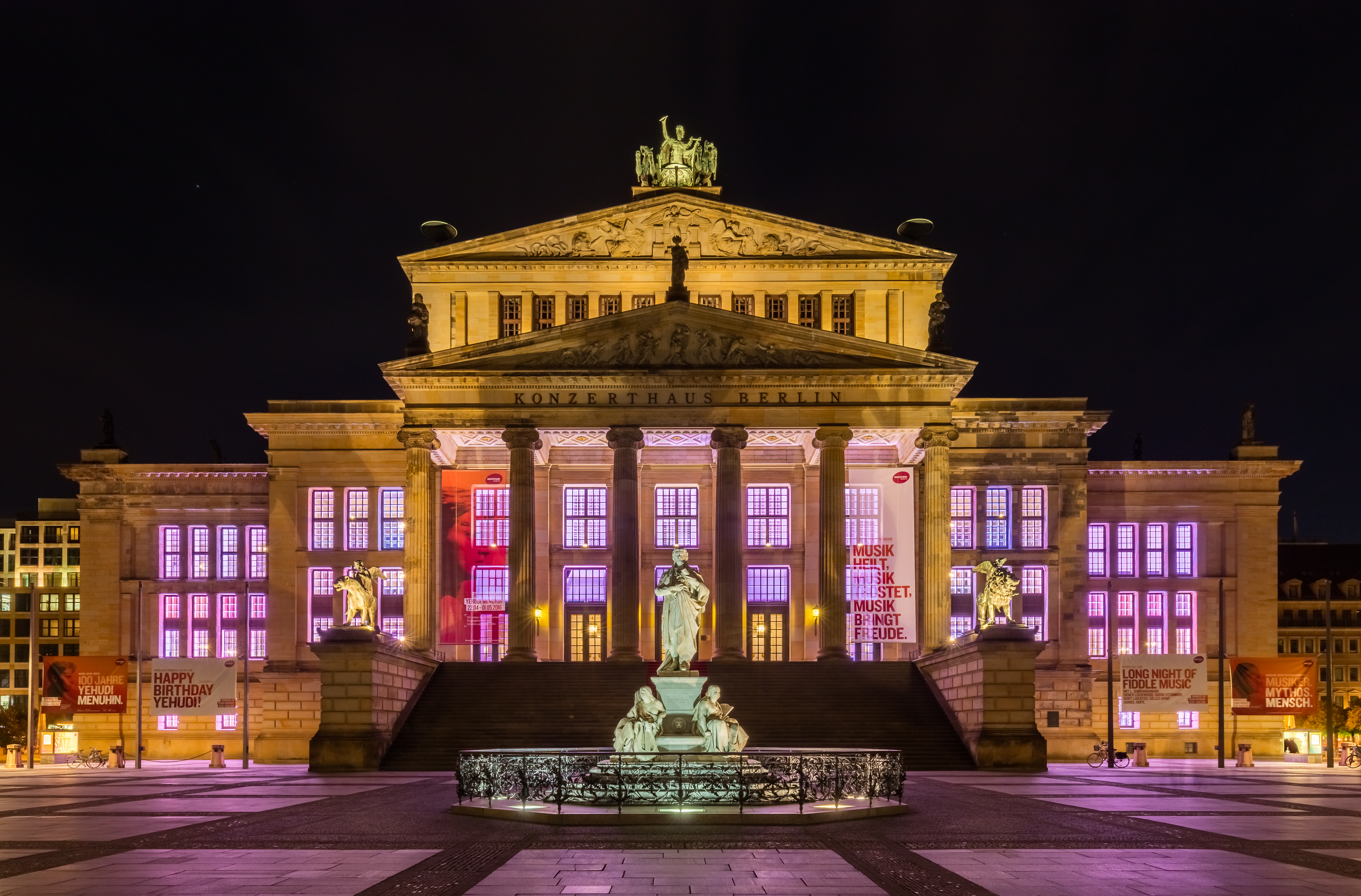 Konzethaus Berlin, a concert hall located on the Gendarmenmarkt square, center of Berlin, Germany. The Neoclassical building is one of the major works of the architect Karl Friedrich Schinkel whereas the sculptures in the exterior are work of Christian Friedrich Tieck and Balthasar Jacob Rathgeber. Inaugurated in 1821 as the Royal Playhouse, it became from 1919 to 1945 the Prussian State Theatre. Due to severe damages by the Allied bombing and the Battle of Berlin it was rebuilt from 1977 until it was reopened in 1984. The building houses the Konzerthausorchester Berlin.